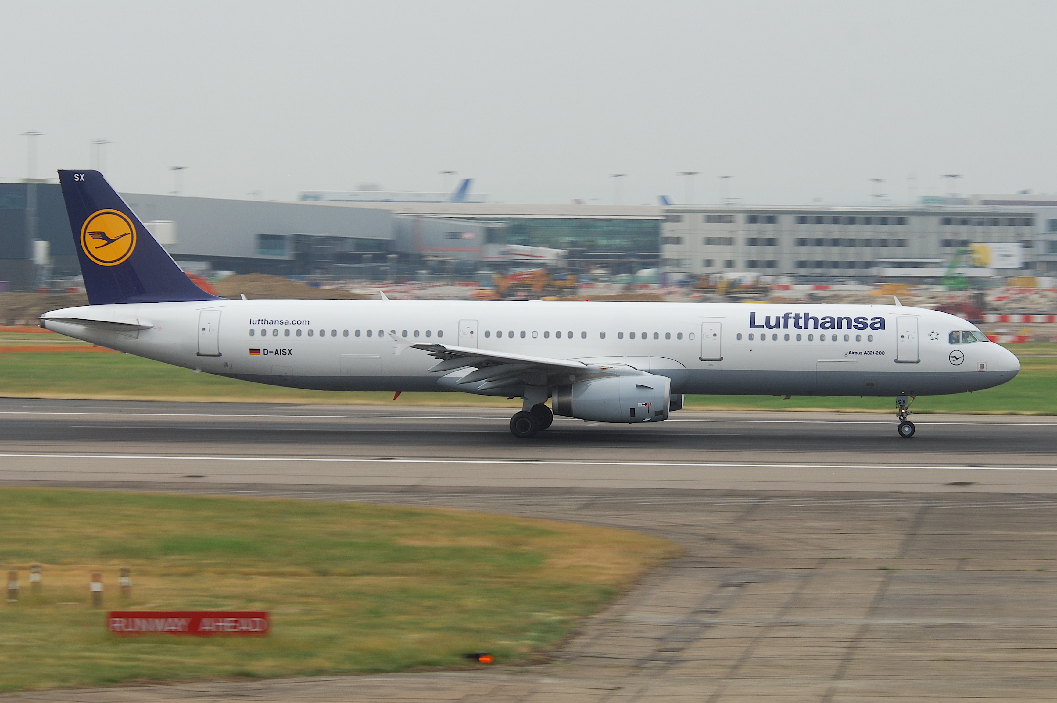 This A321 took its first flight on October 20, 2009...(c/n 4073)